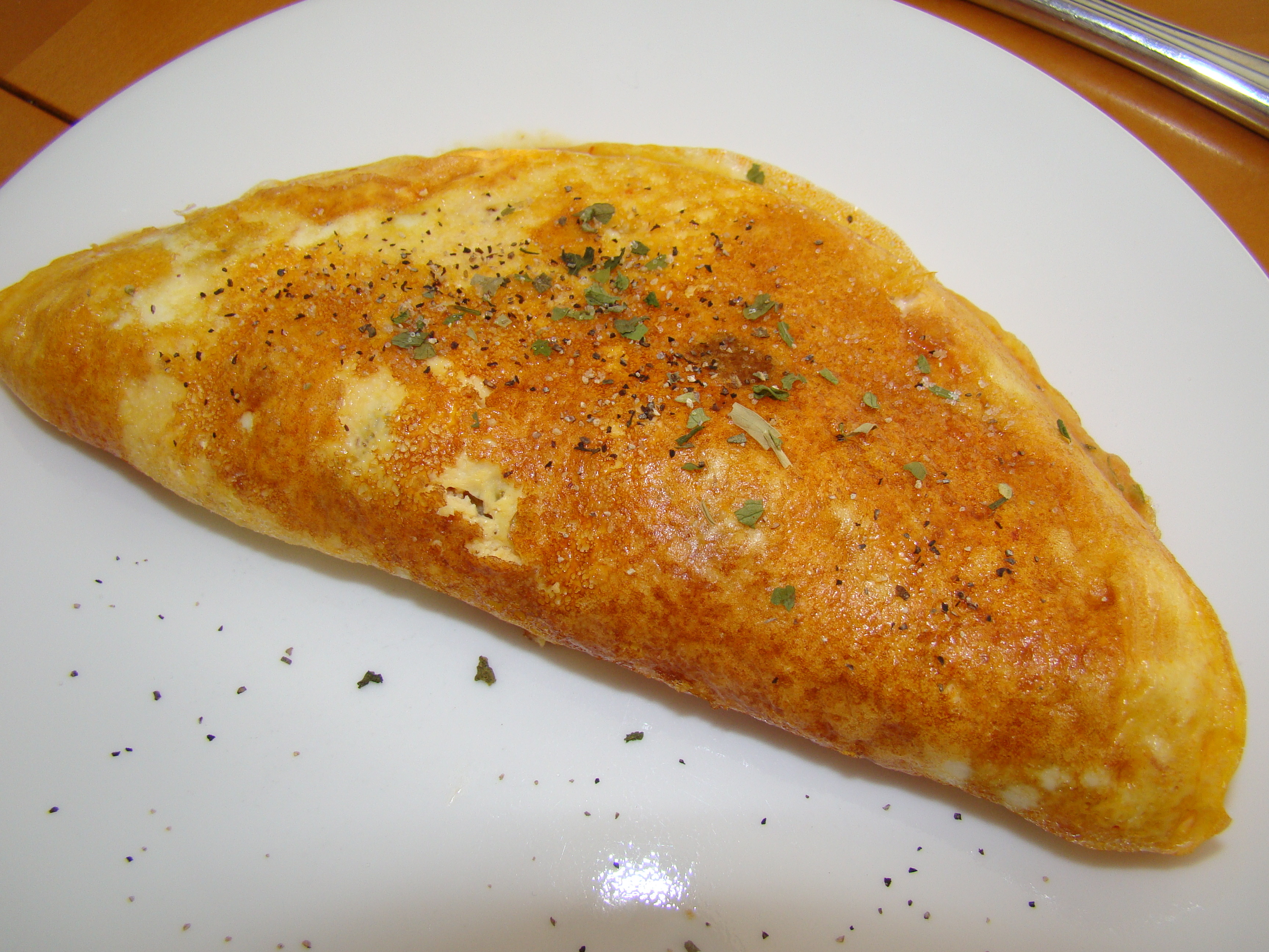 An omelet with ham, cheese, and a garnish of spices including oregano and parsley.